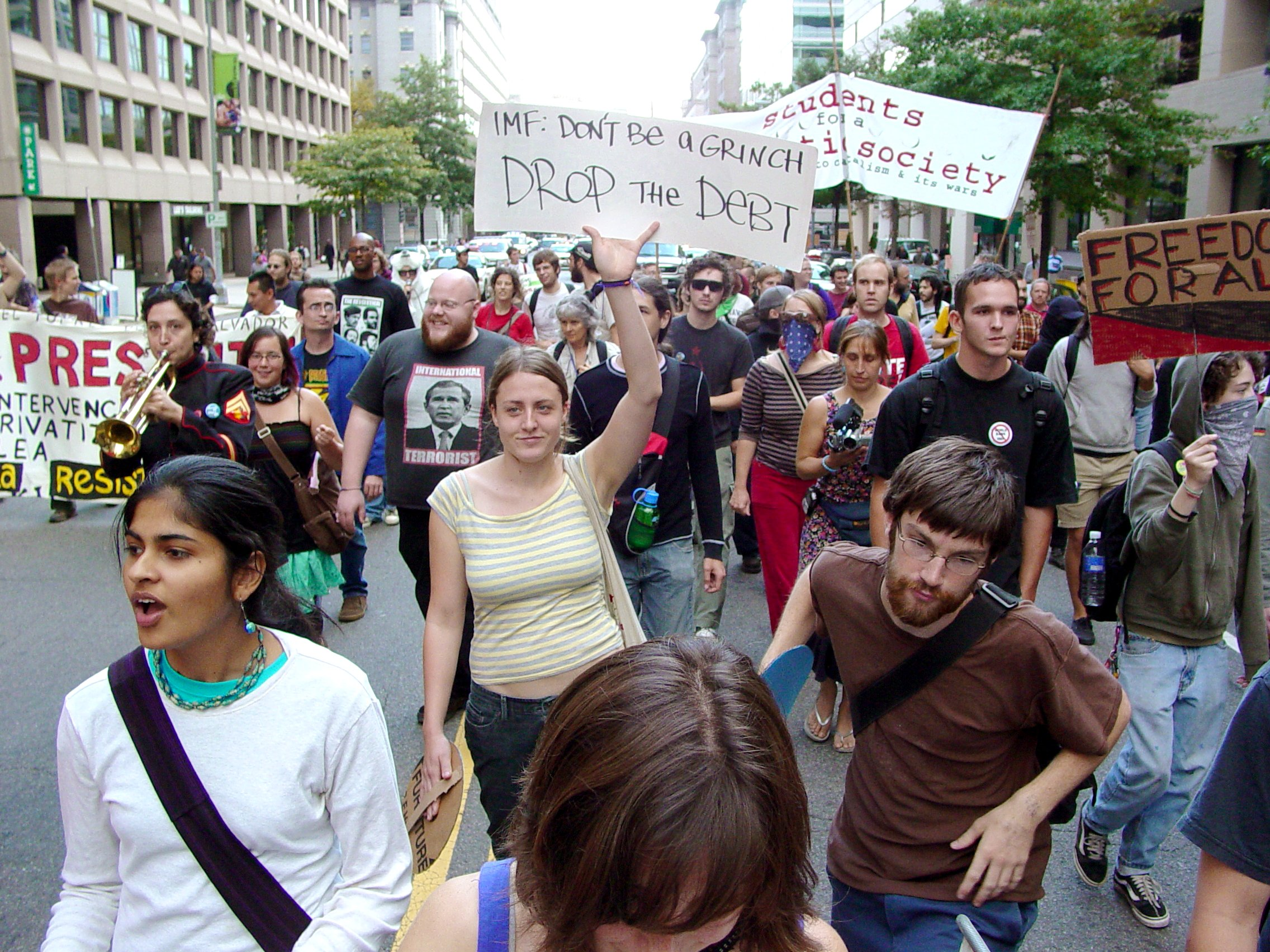 Mainstream march, part of the October Rebellion demonstrations against the World Bank and IMF in Washington DC.